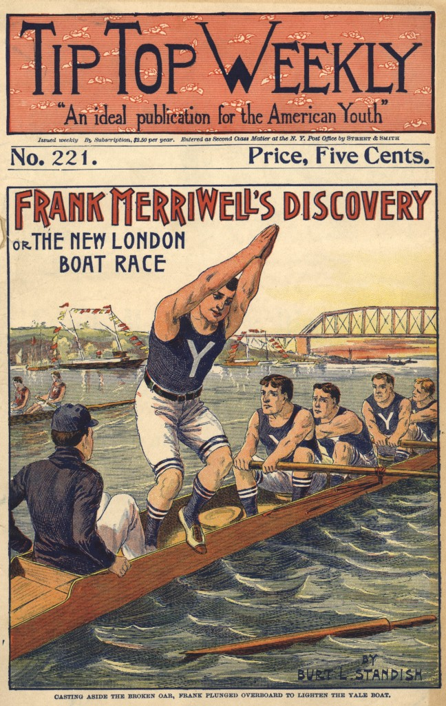 "Casting aside his broken oar, Frank plunged overboard to lighten the Yale boat" - colored lithograph - cover illustration for Tip Top Weekly - c. 1900